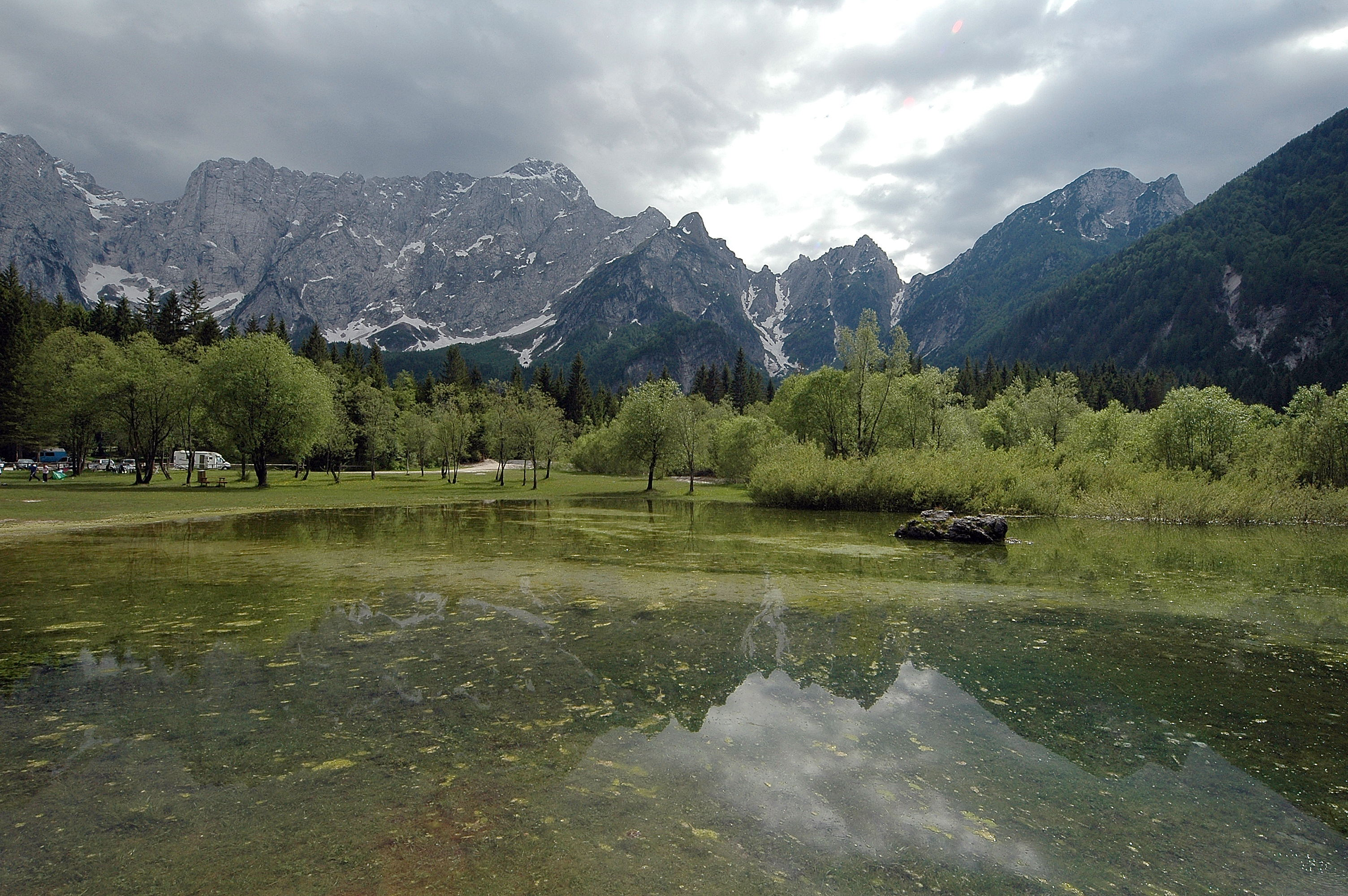 Fusine-lake superior with view to Mangart-mountain, Tarvisio, Friuli-Venezia Giulia Italy